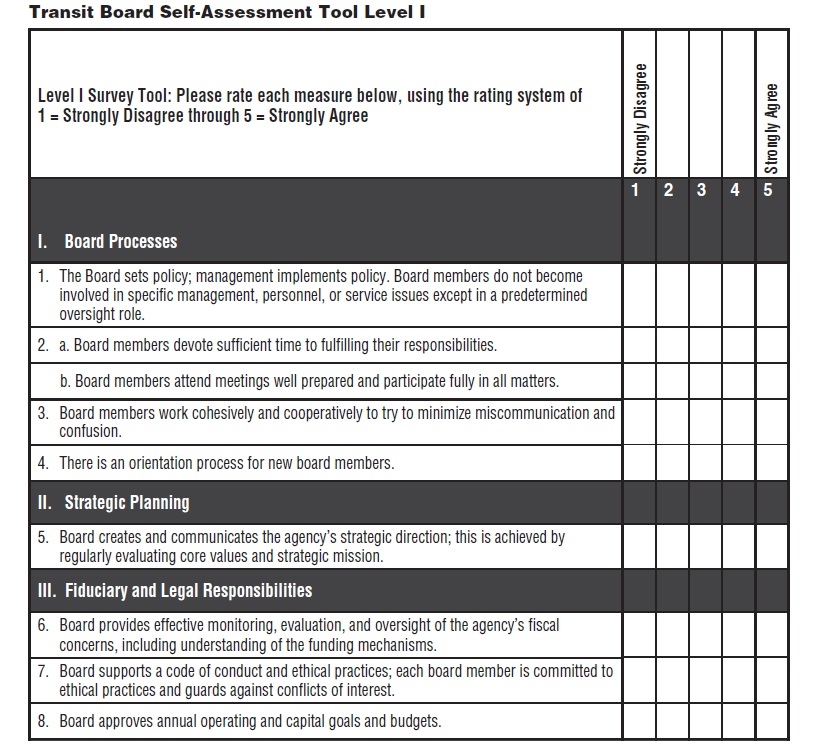 A control self-assessment form produced by the Federal Transit Administration